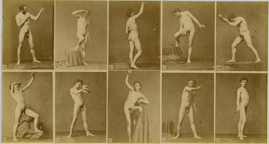 Louis Jean-Baptiste Igout (1837 - ca. 1881), Studies in the male nude, a catalogue of images sold as cheap replacement of life nude models for art students and artists. Ca. 1870/80.